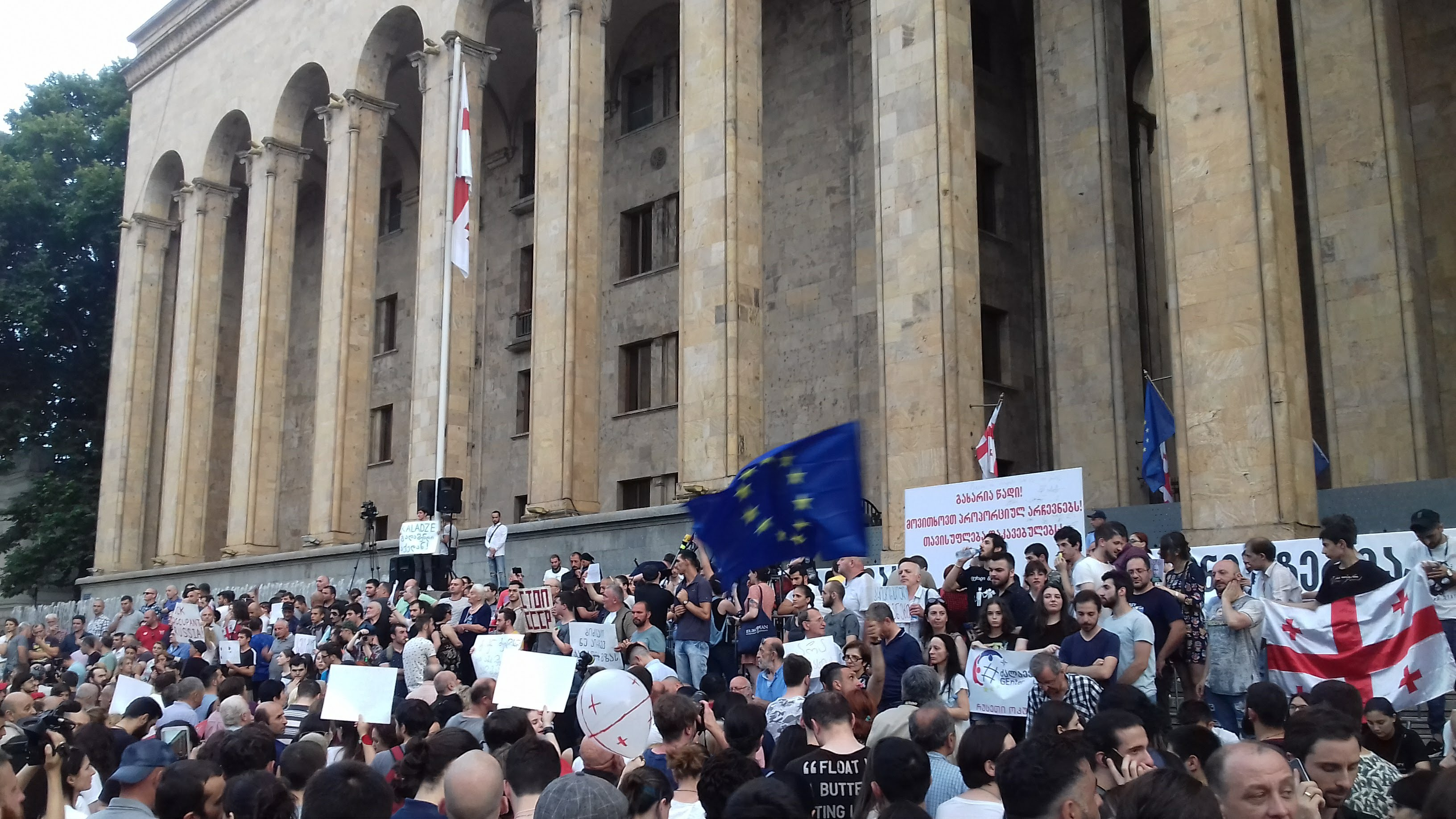 Georgians protesting against Russian occupation and government policies in June 2019.